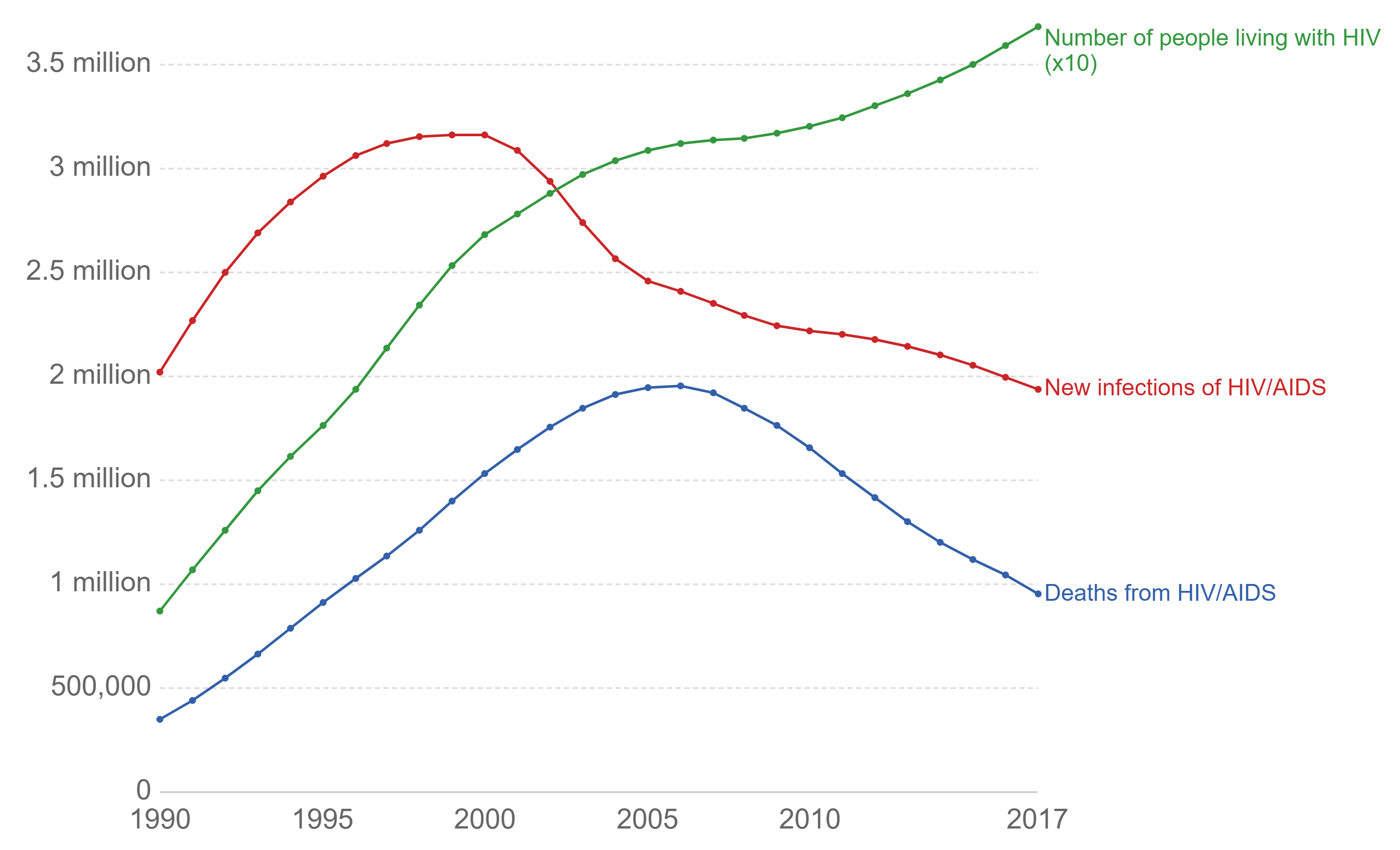 Prevalence, new cases and deaths from HIV/AIDS, World To fit all three measures on the same visualization the total number of people living with HIV has been divided by ten (i.e. in 2017 there were 37 million people living with HIV).